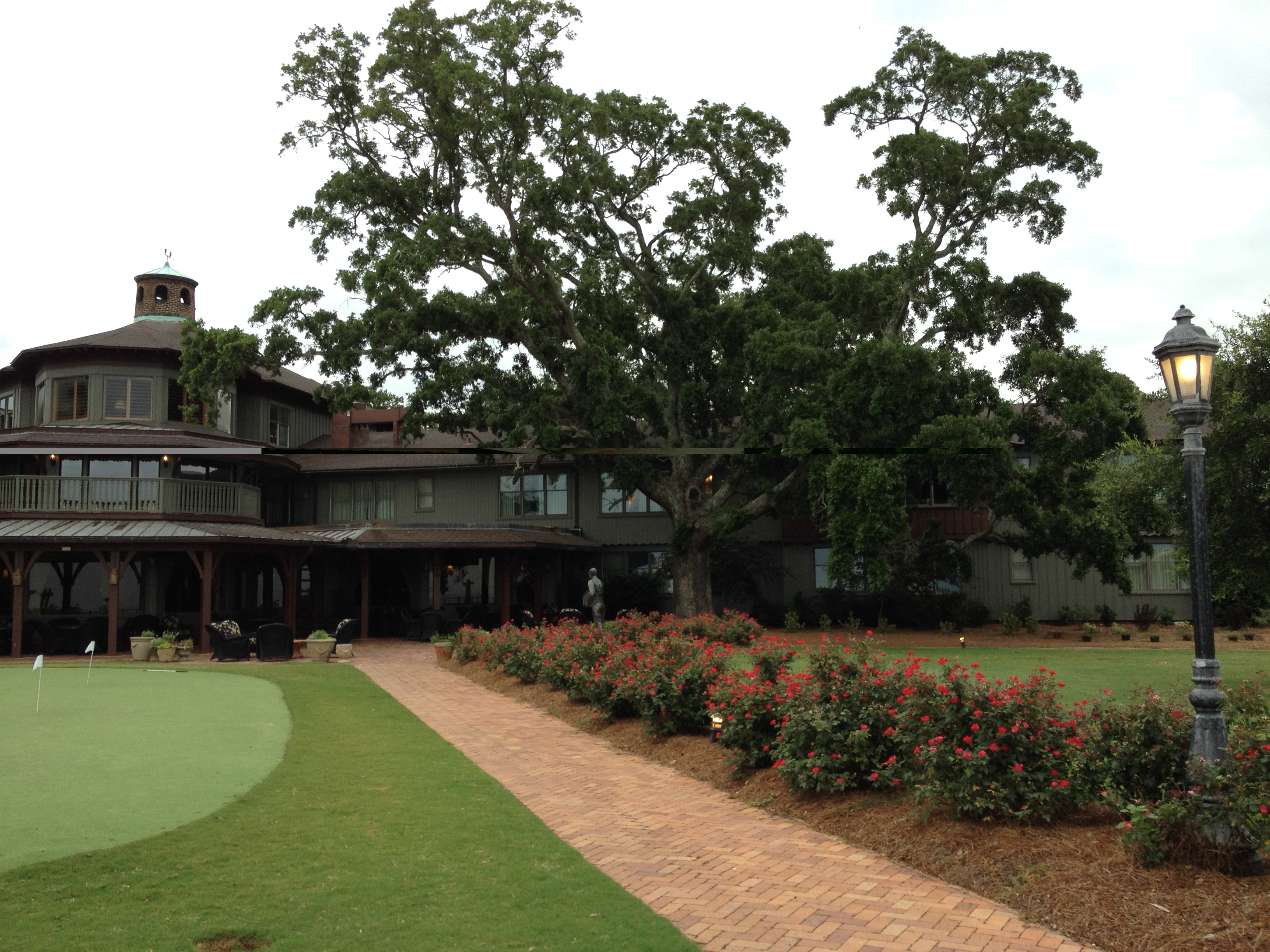 This photo is of The Grand Hotel from the side facing Mobile Bay in Point Clear Alabama